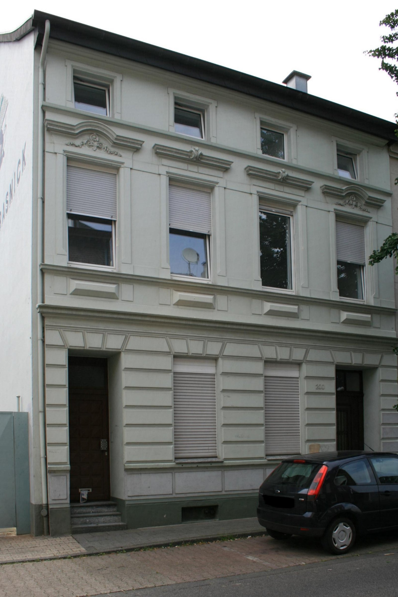 Cultural heritage monument No. M 030 in Mönchengladbach